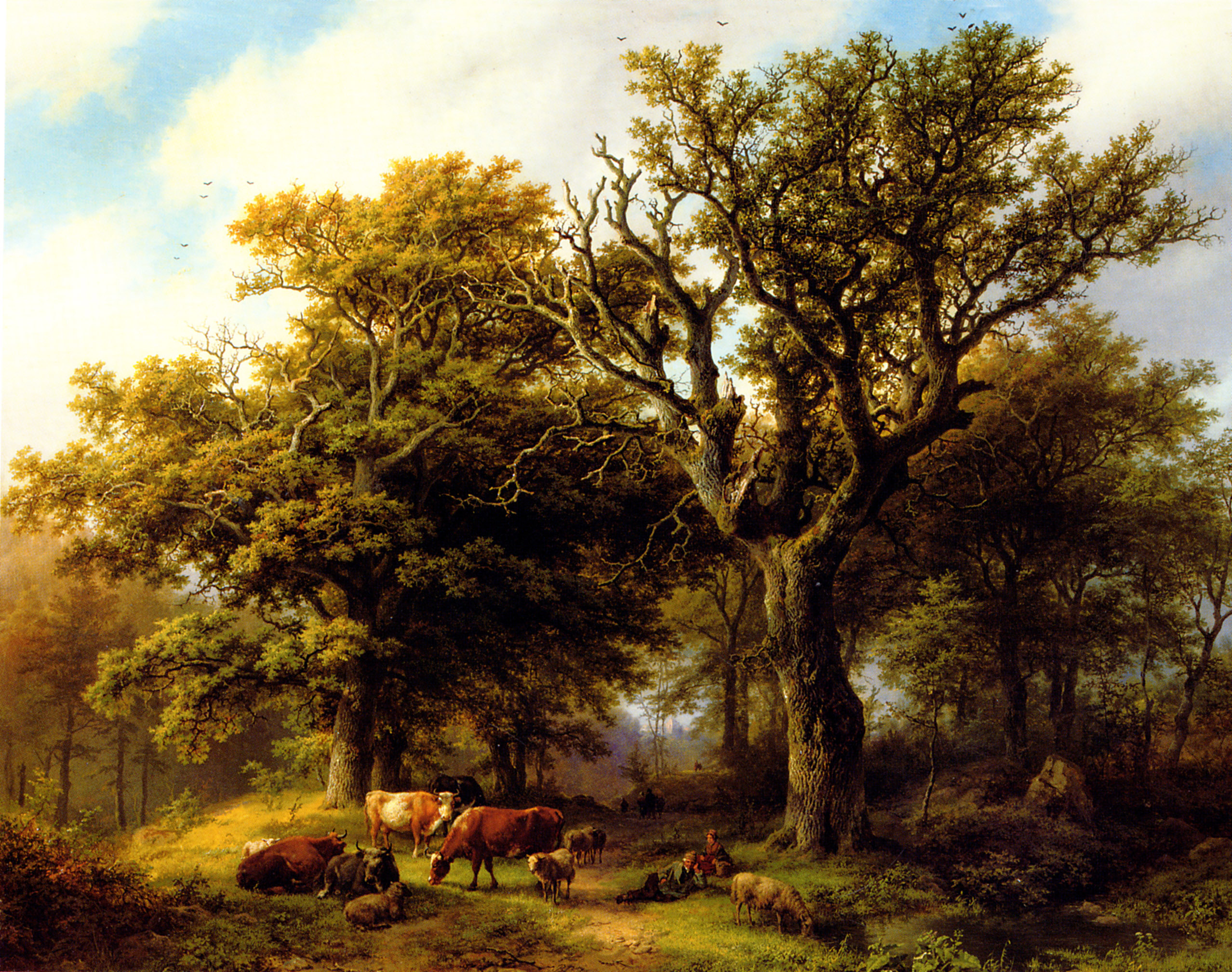 A herdsman and his cattle resting under an oak tree, a ruin in the distance